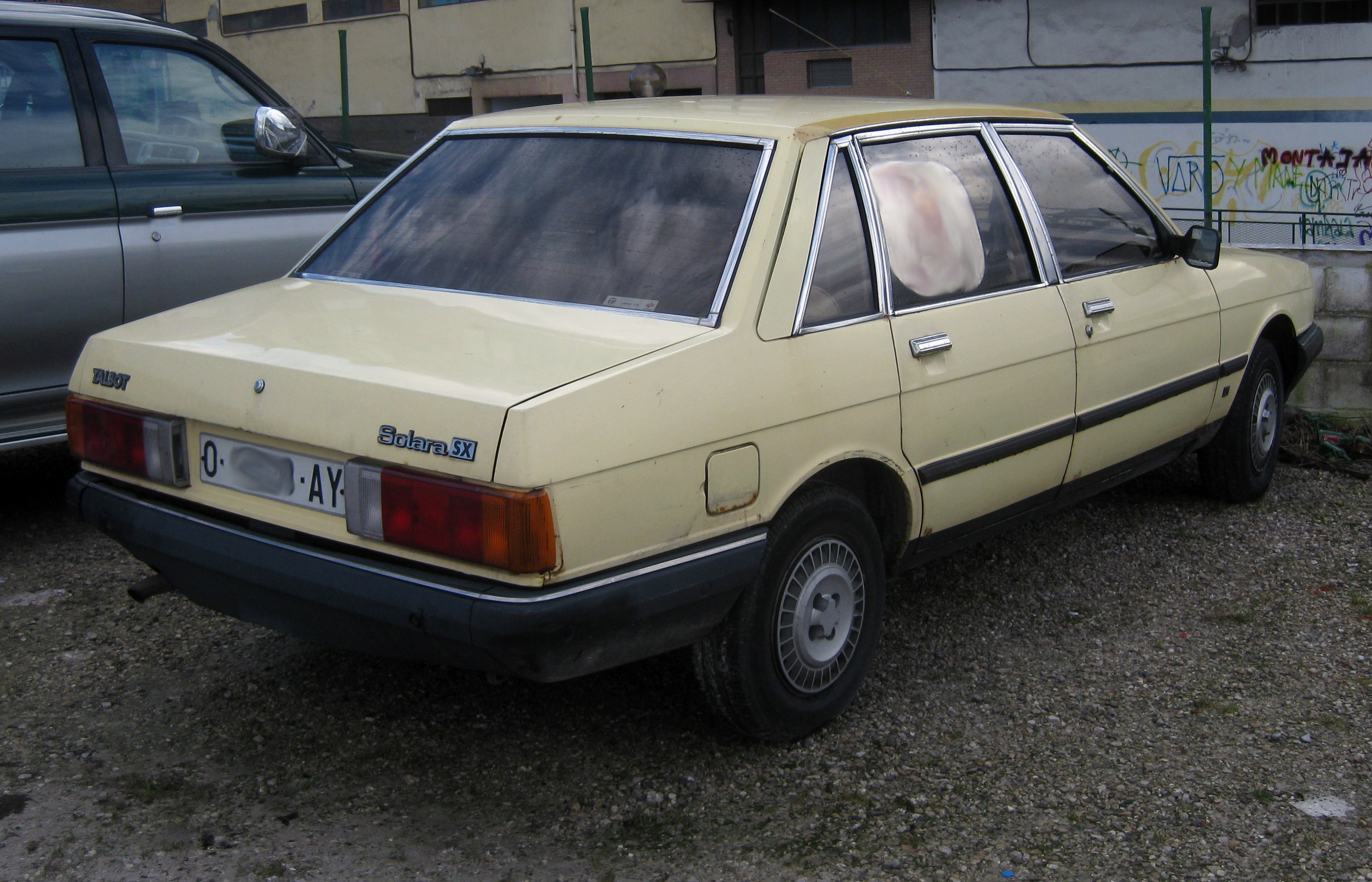 Nice eighties car that has become quite rare to see nowadays, I find this one even more special for having an automatic gearbox, something not very common over here. It was carrying a 1991 plate from Oviedo (Asturias), but it's just too new for the car, so it probably got re-registered.